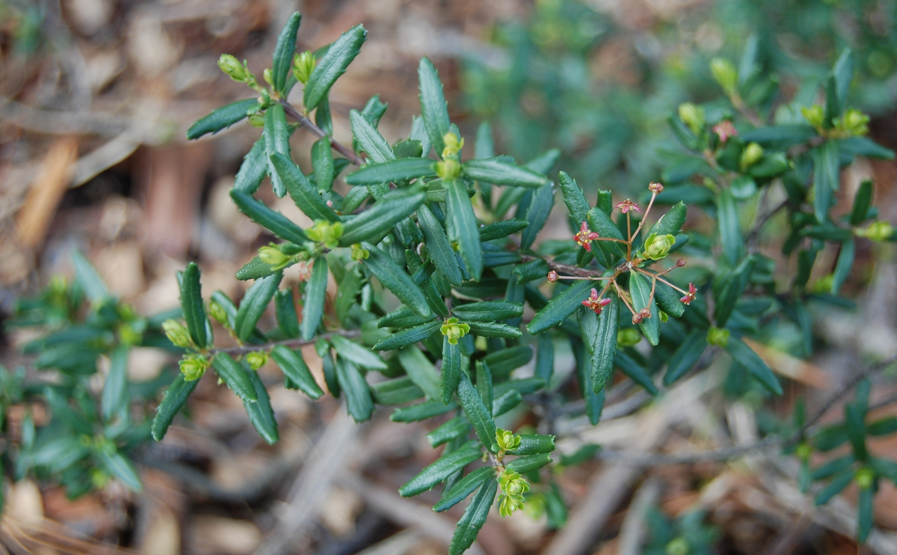 Paxistima canbyi. Also known as Canby's mountain-lover and belongs to the family Celastraceae and the group Dicot according to .